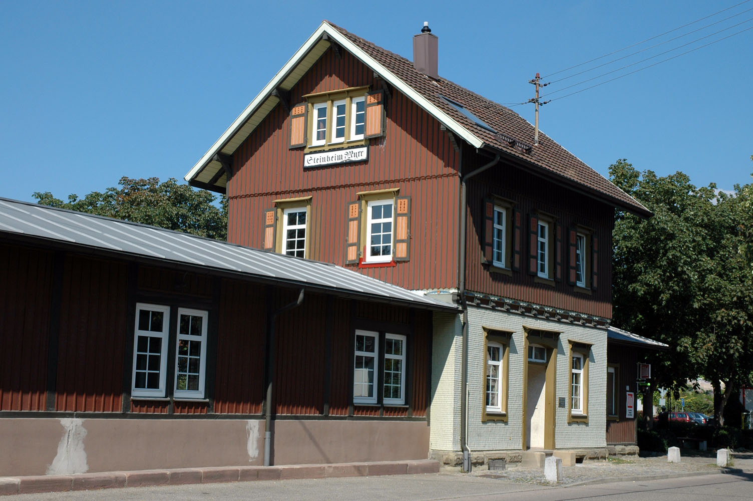 former train station of Steinheim an der Murr.